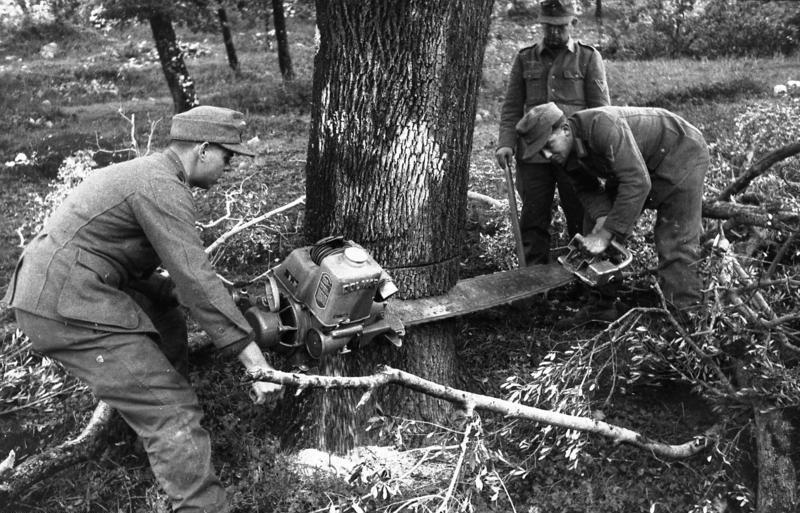 Information added by Wikimedia users.